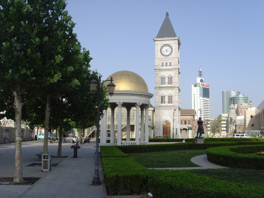 Tianjin Hai River